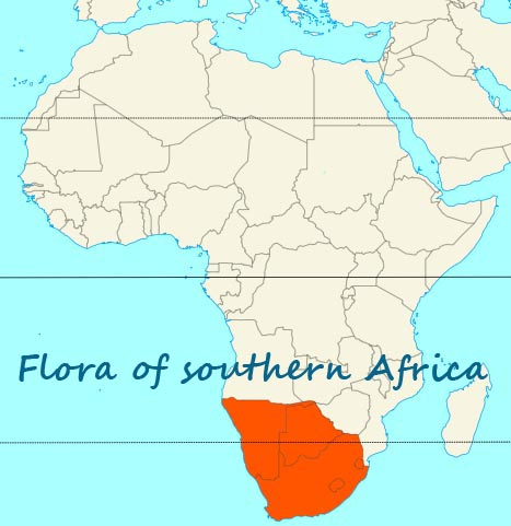 Area covered by the Flora of southern Africa